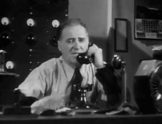 Screen capture of Joseph E. Bernard from the 1934 film, Murder in the Clouds.